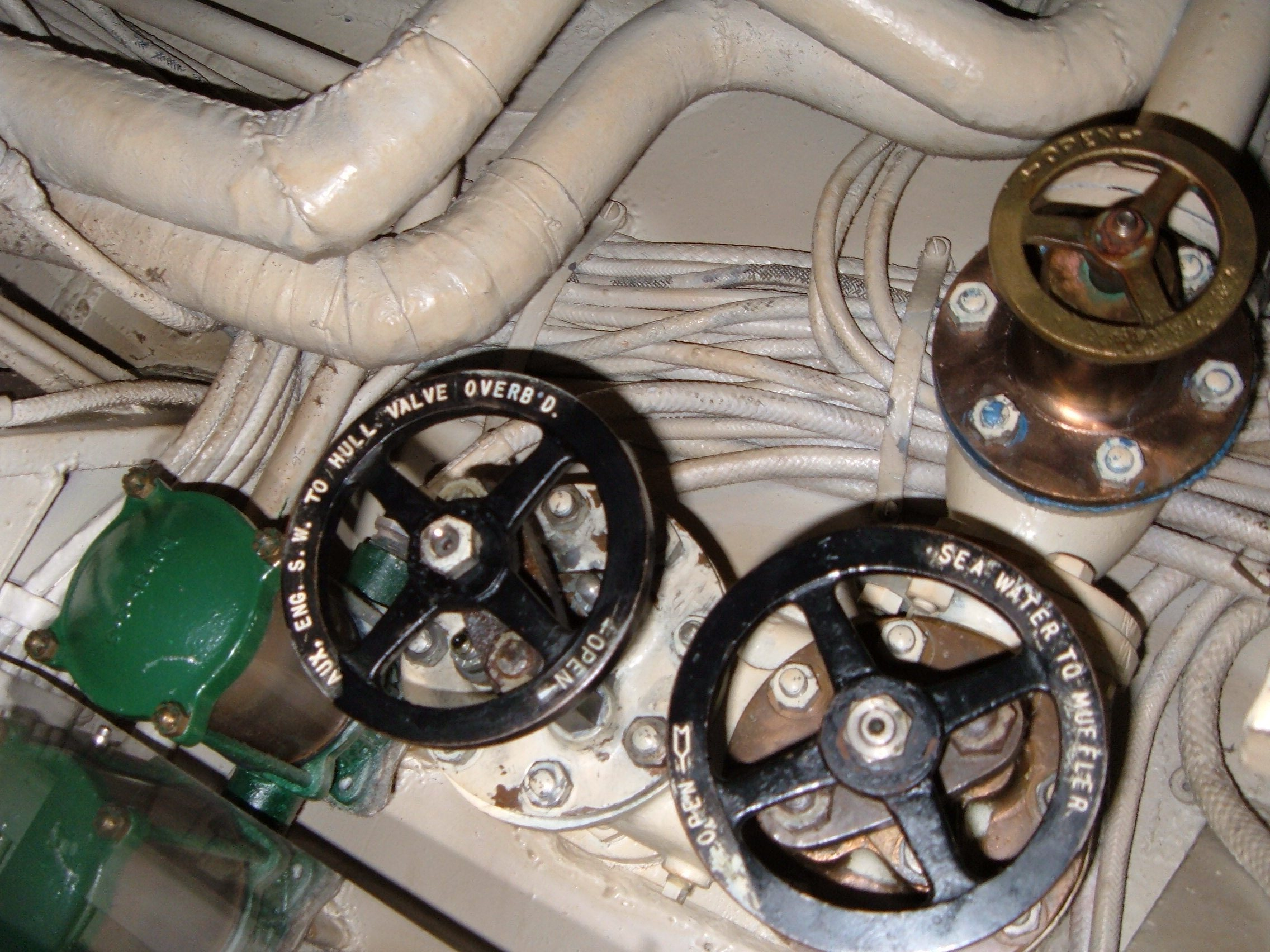 Valves regulating the flow of sea water to certain parts of the boat located in the after engine room of the USS Pampanito (SS-383), berthed at Fisherman's Wharf in San Francisco.